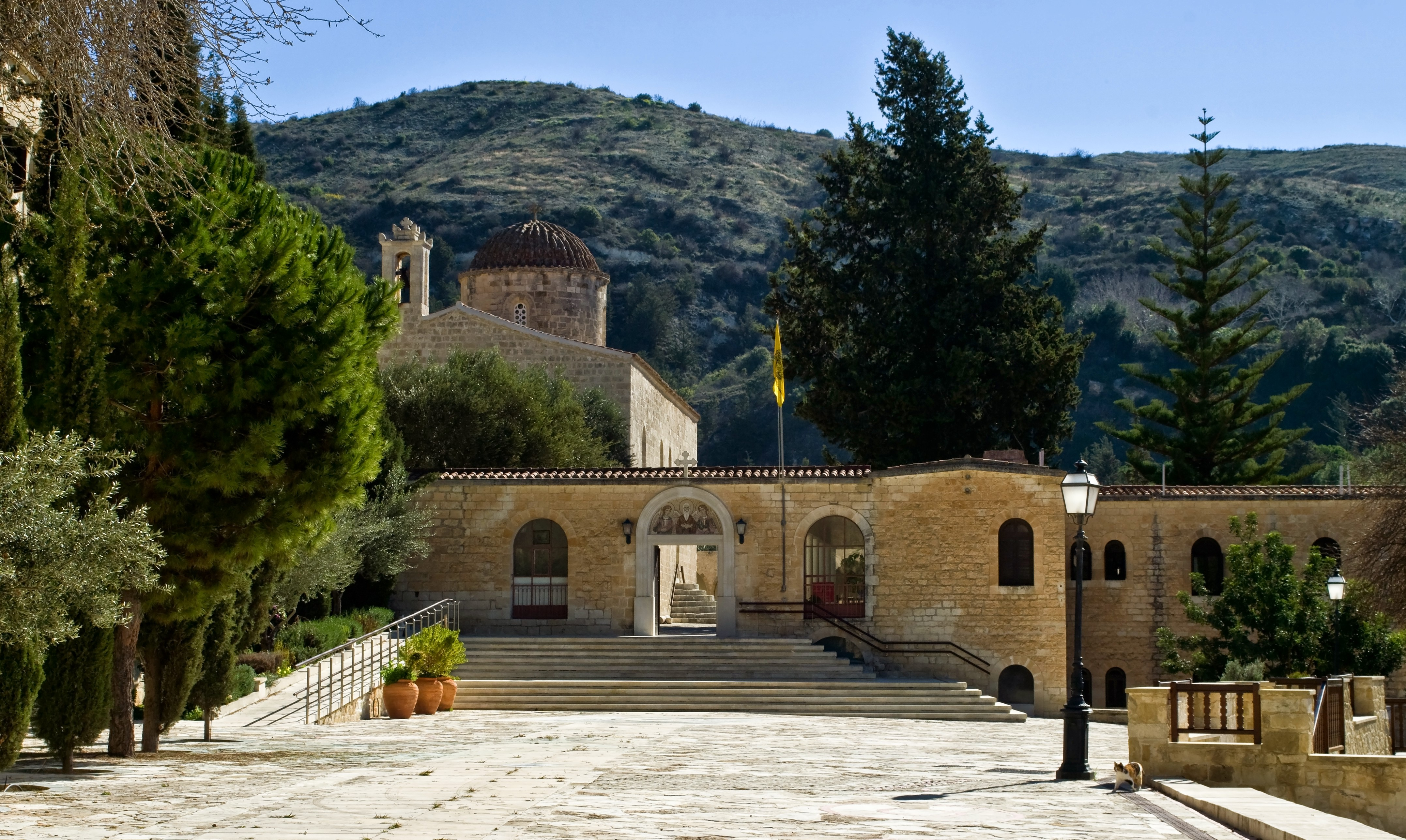 Monastery of Agios Neophytos near Tala village, Cyprus.